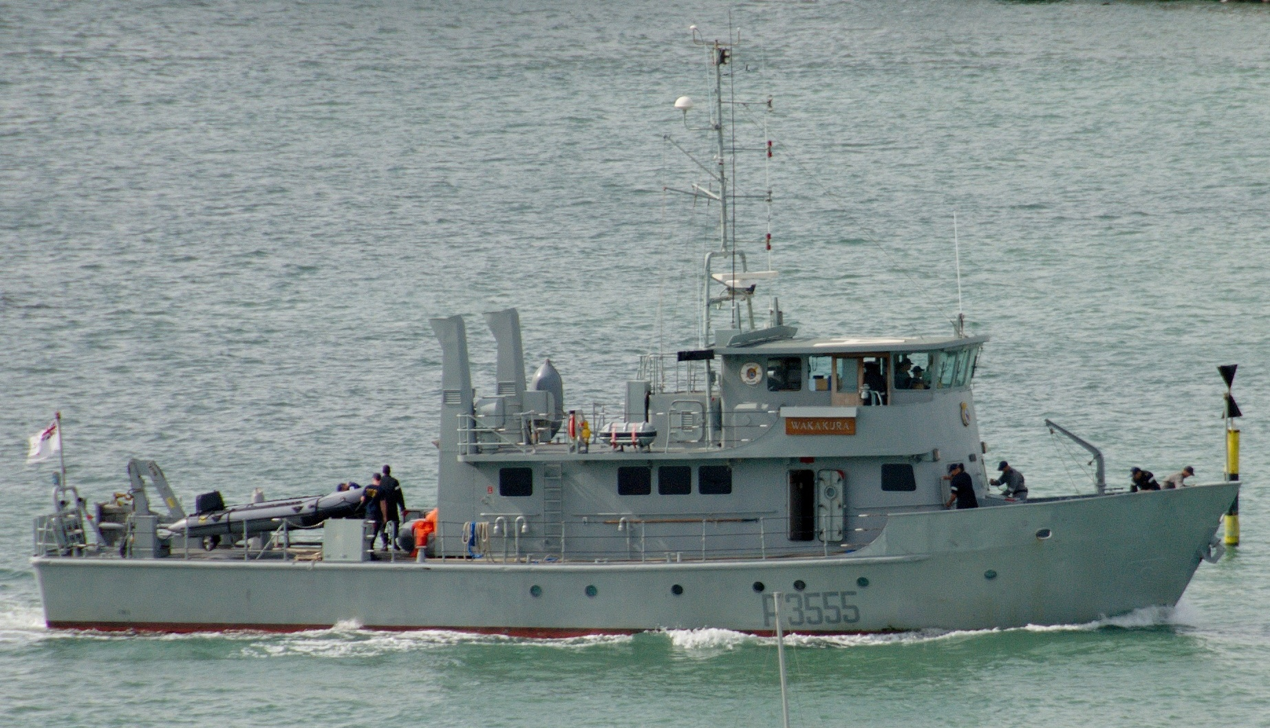 HMNZS Wakakura, P3555, a Moa class patrol vessel of the Royal New Zealand Navy, off Devonport Naval Base